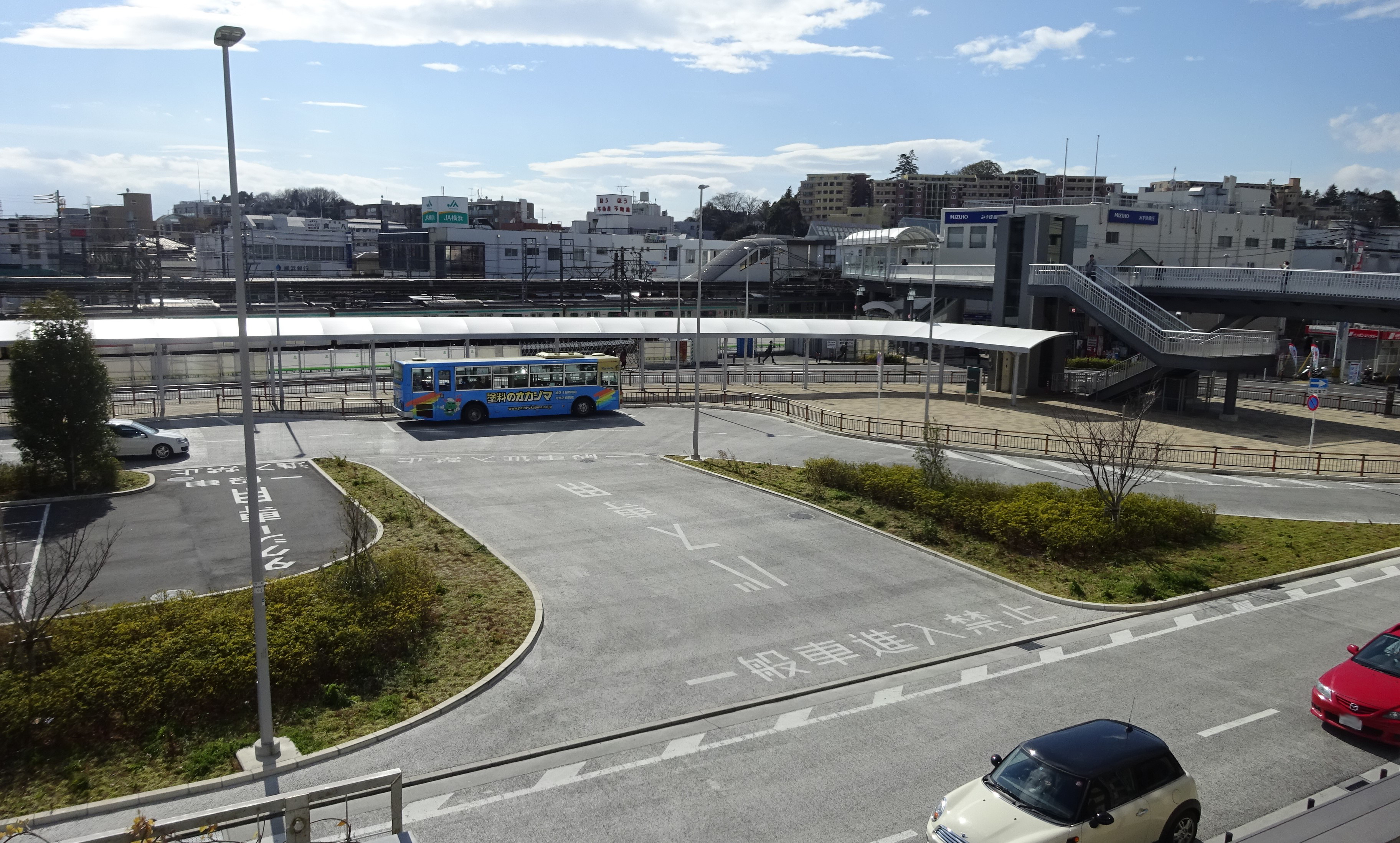 North entrance of Nagatsuta Station